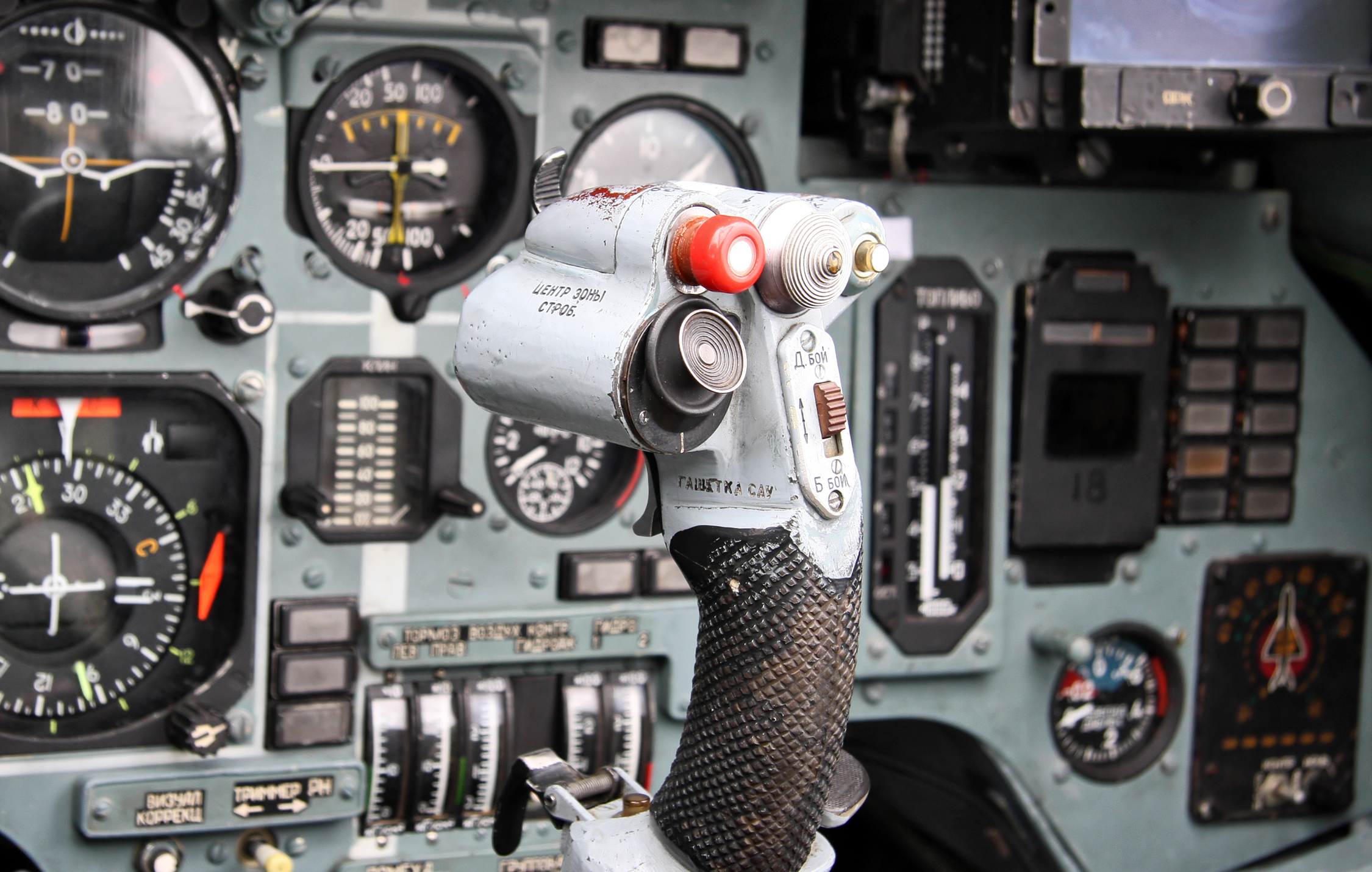 Cockpit of Sukhoi Su-27 fighter